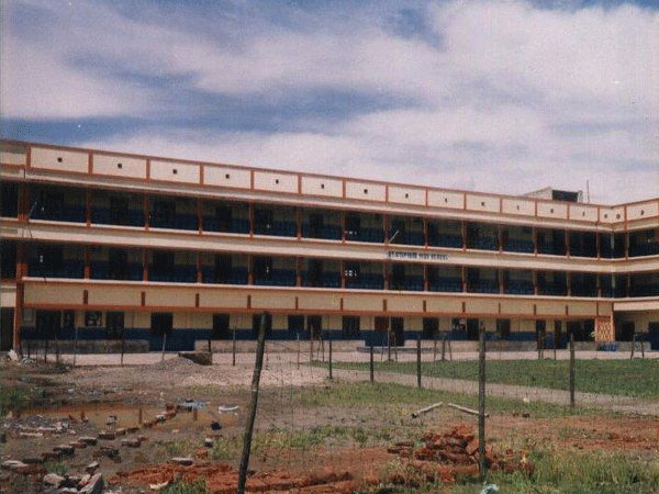 st stephens tsk